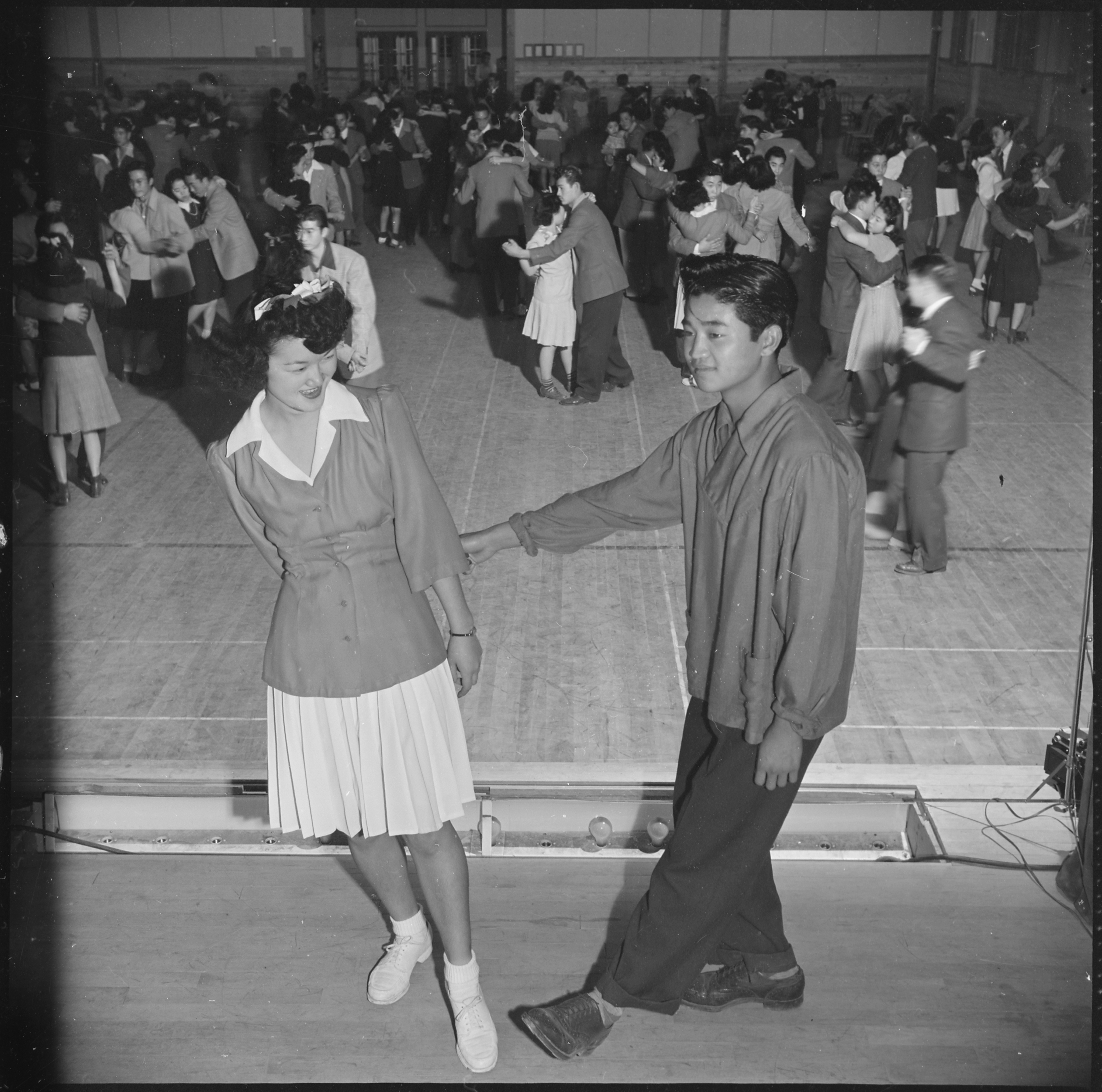 Scope and content: The full caption for this photograph reads: Heart Mountain Relocation Center, Heart Mountain, Wyoming. "Tubbie" Kunimatsu and Laverne Kurahara demonstrate some intricate jitterbug steps, during a school dance held in the high school gymnasium.